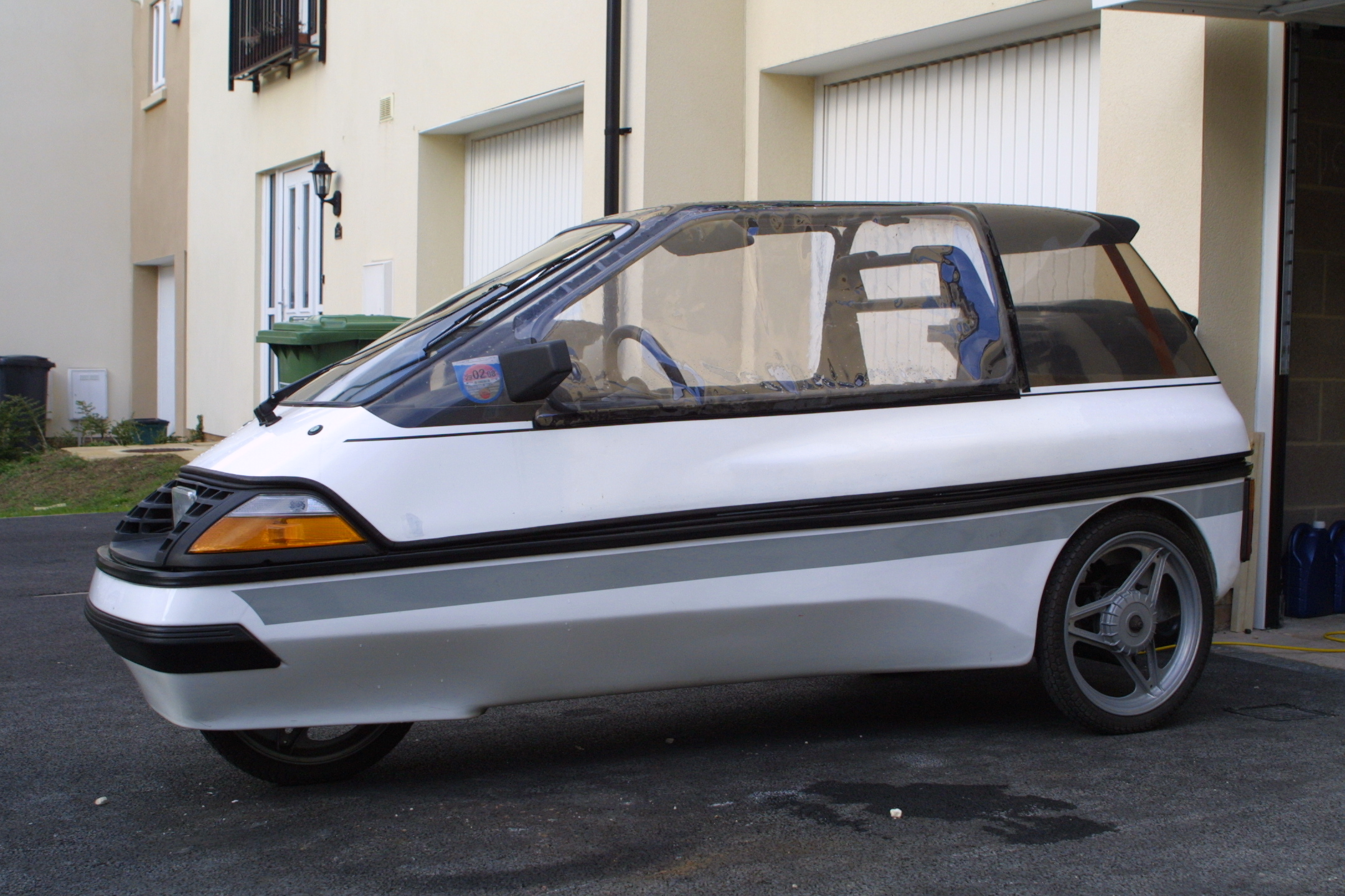 The Mini-El electric microcar. Photographed by me in Bristol, UK.